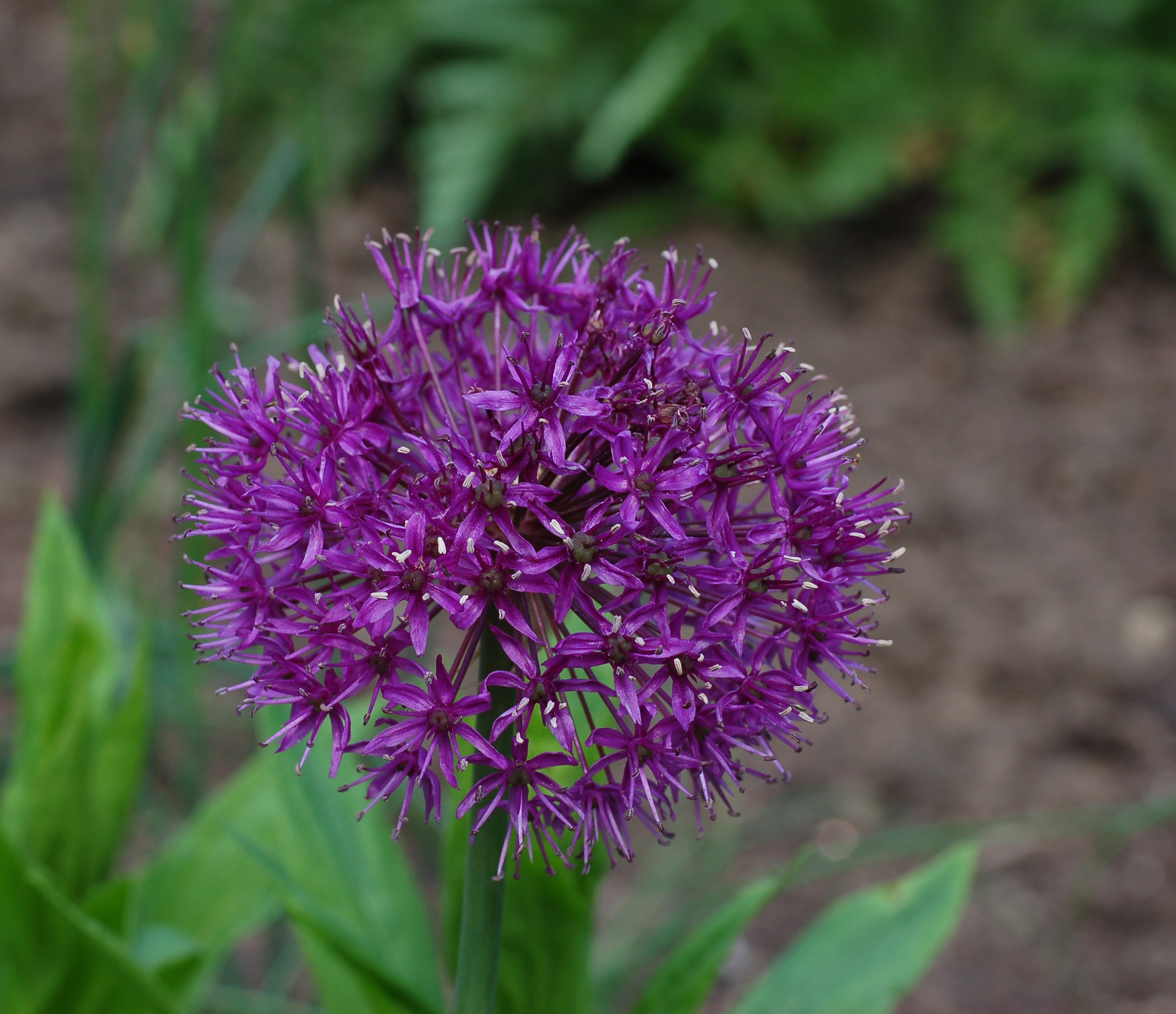 Picture of a flower head of the Flowering Onionen (Allium aflatunense en 'Purple Sensation'). Photo taken in the Pond Garden Bed 2 at the Chanticleer Garden where the species was identified.